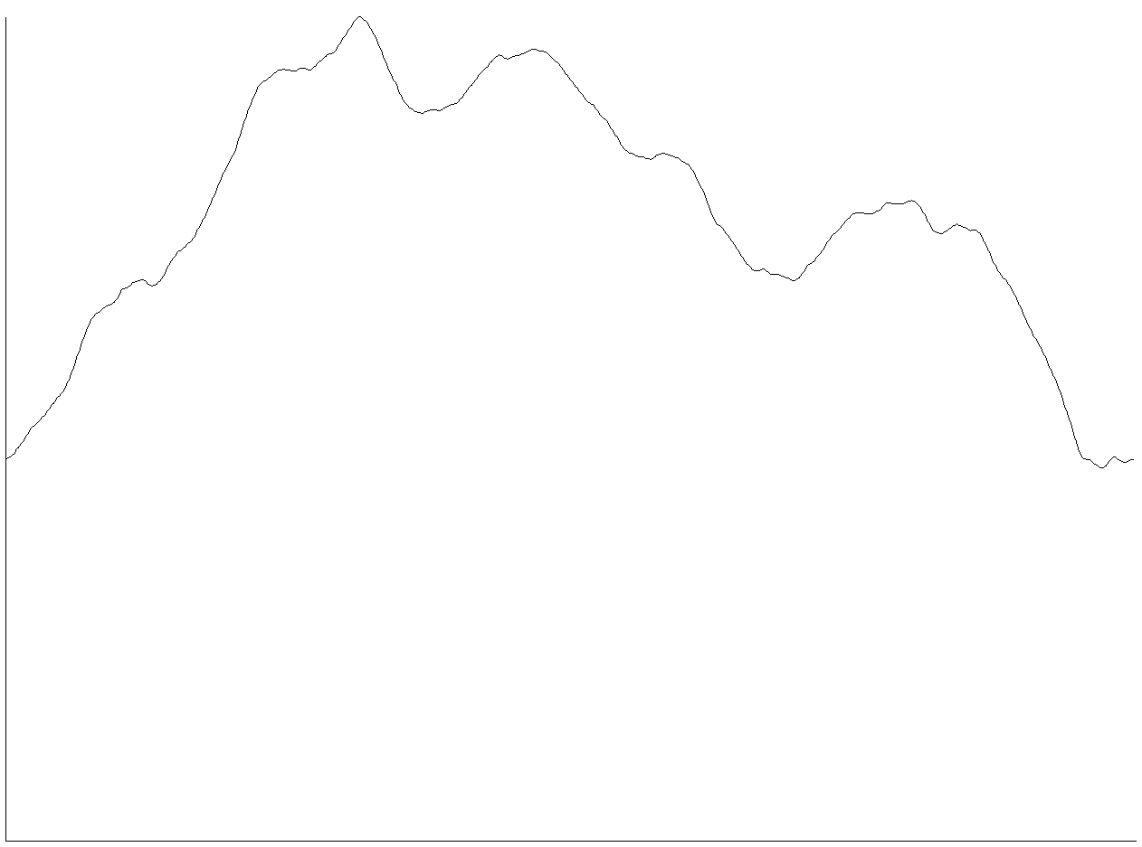 Red noise